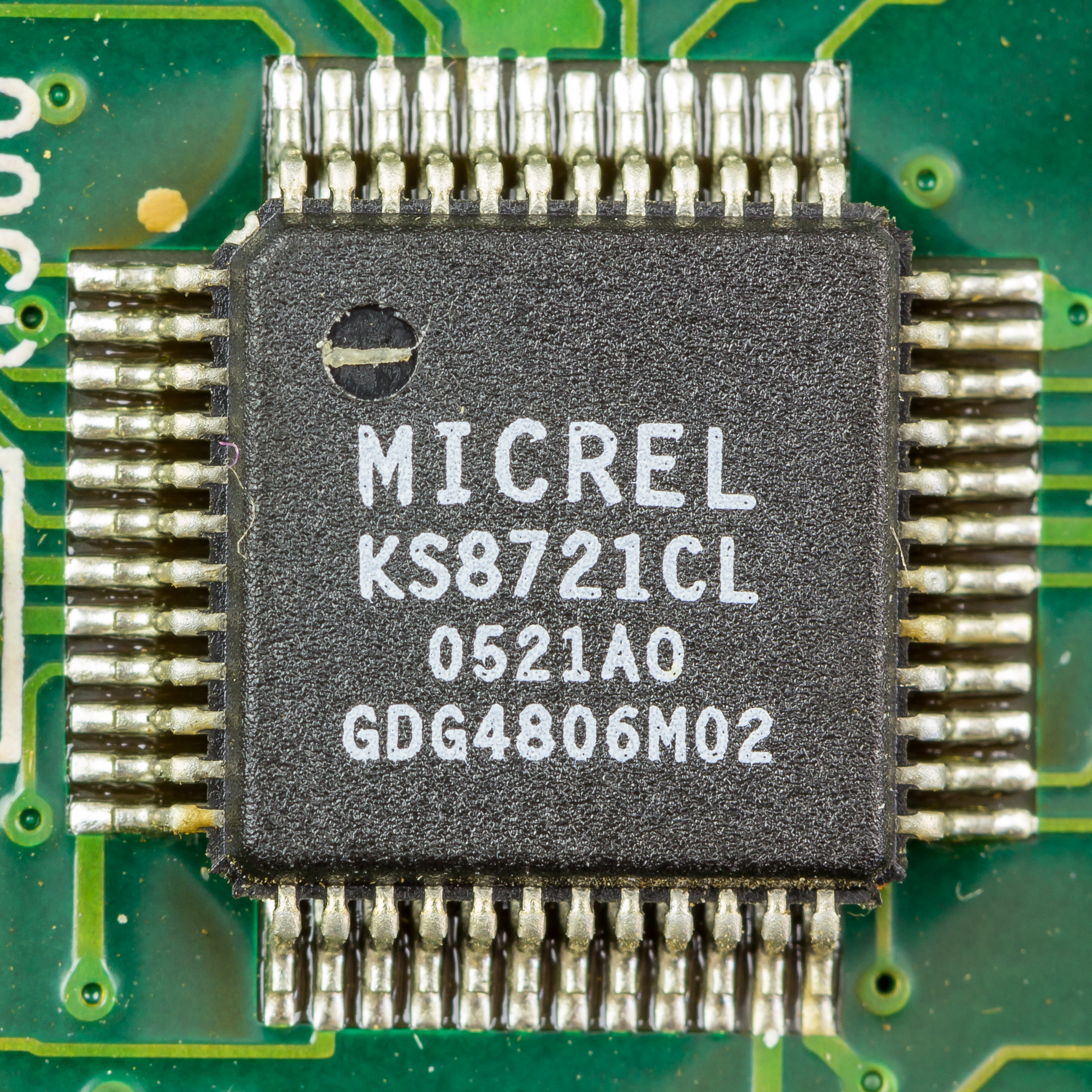 Micrel KS8721CL (3.3V Single Power Supply 10/100BASE-TX/FX MII Physical Layer Transceiver) on mainboard of Surf@home II